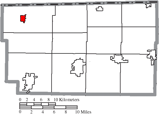 Map of the municipal and township boundaries of Fulton County, Ohio, United States, as of the 2000 census, with the location of the village of Fayette highlighted. Township borders are shown only in unincorporated areas in order to differentiate incorporated and unincorporated areas more clearly.